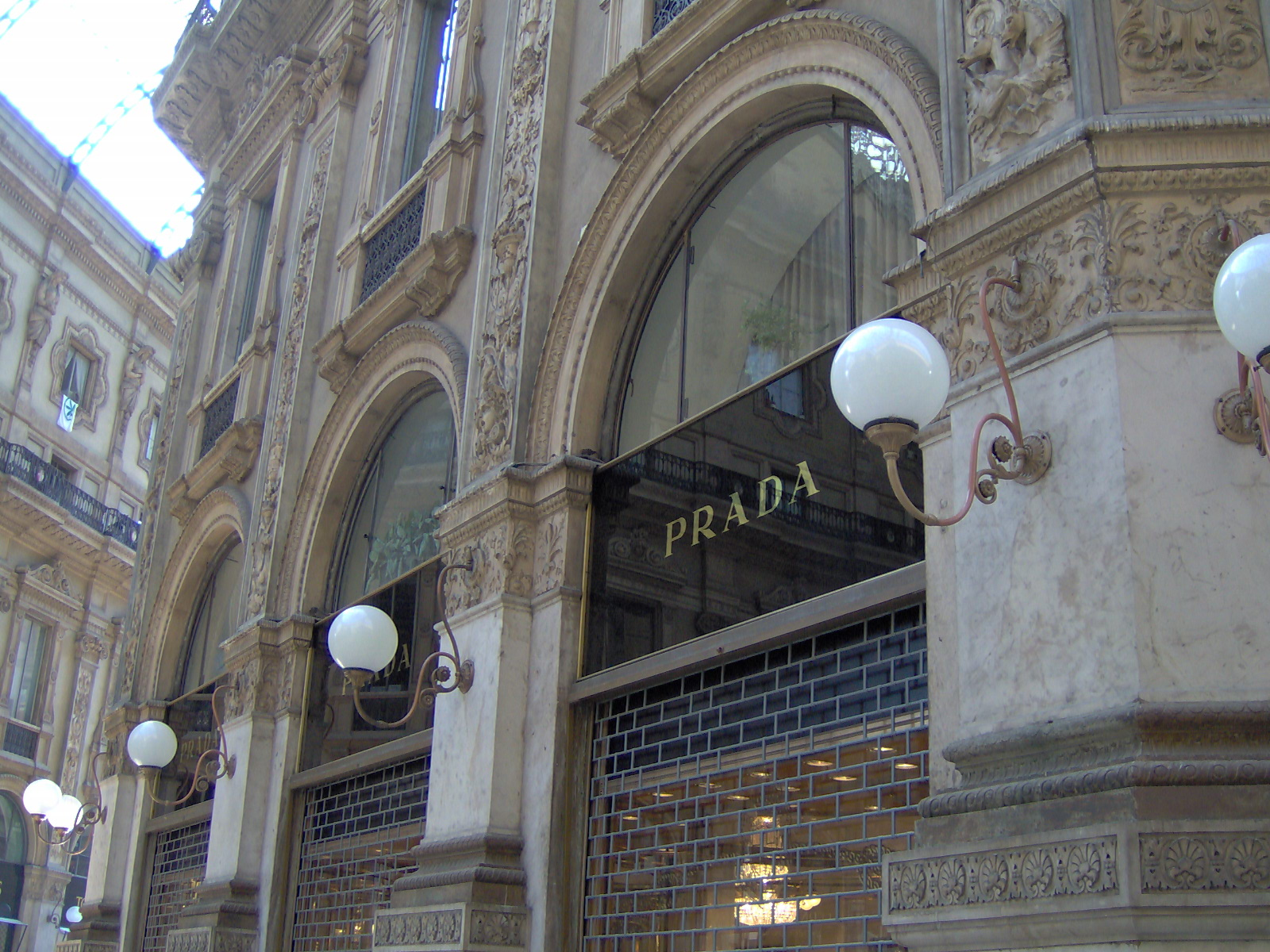 (Prada boutique at the Galleria Vittorio Emanuele II in Milan, Italy